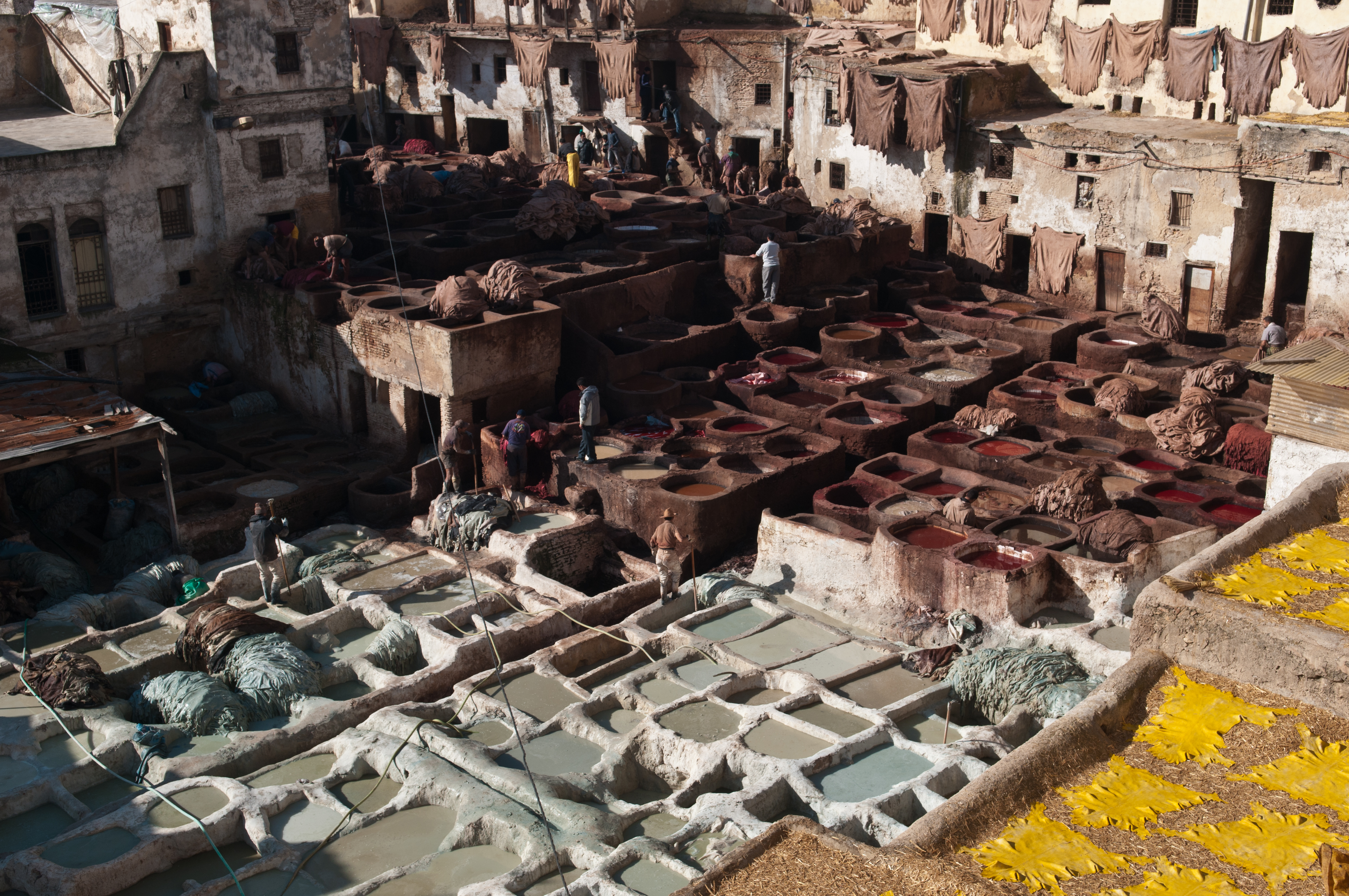 Leather tanning in Fes